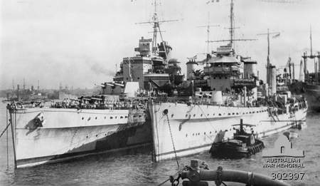 Photograph showing British light cruisers HMS Glasgow (left) and HMS Enterprise (right) in Keppel Harbour, Singapore.